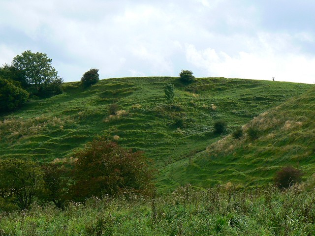 Bincknoll Castle, near Cotmarsh, Wiltshire